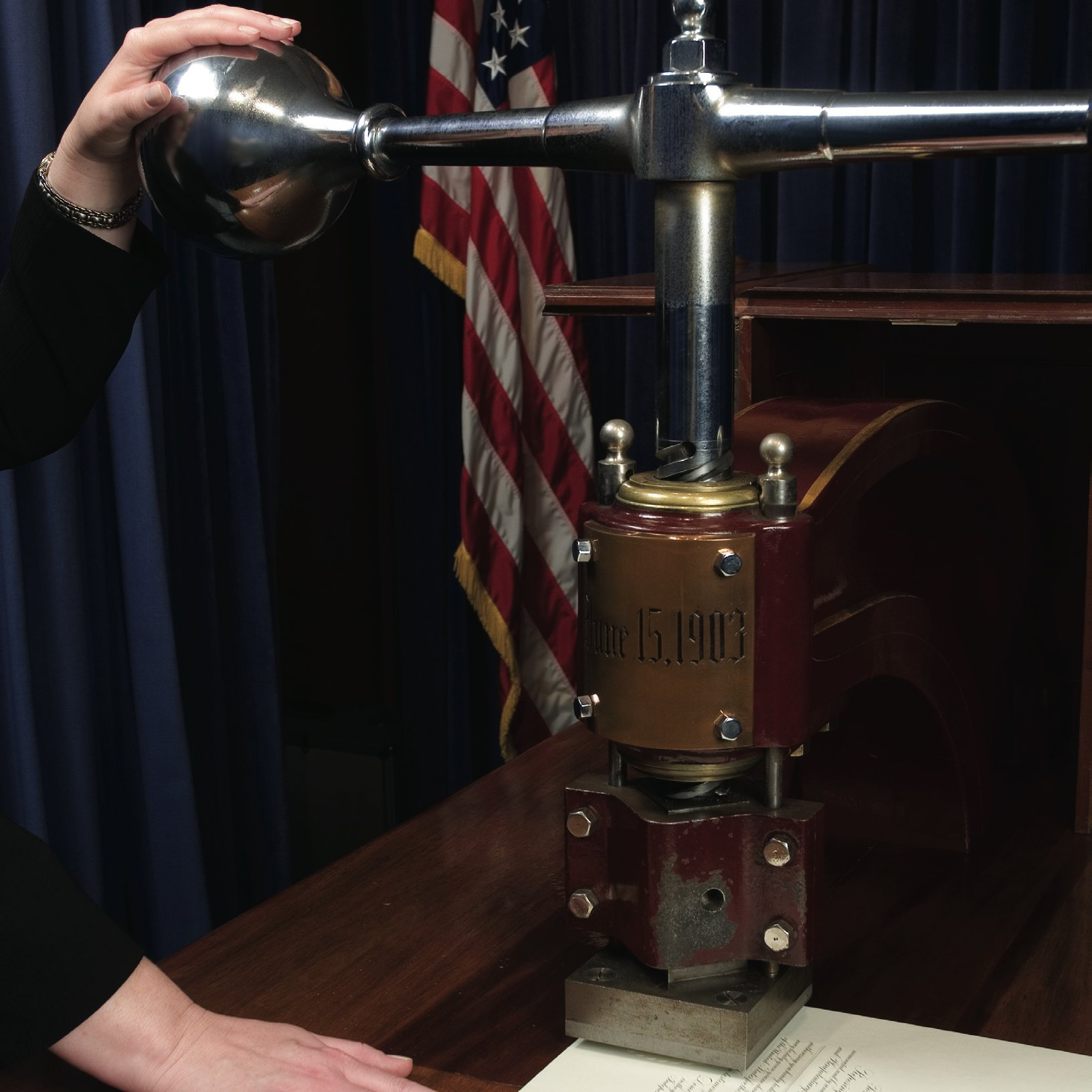 The Great Seal of the United States imprinting a document.